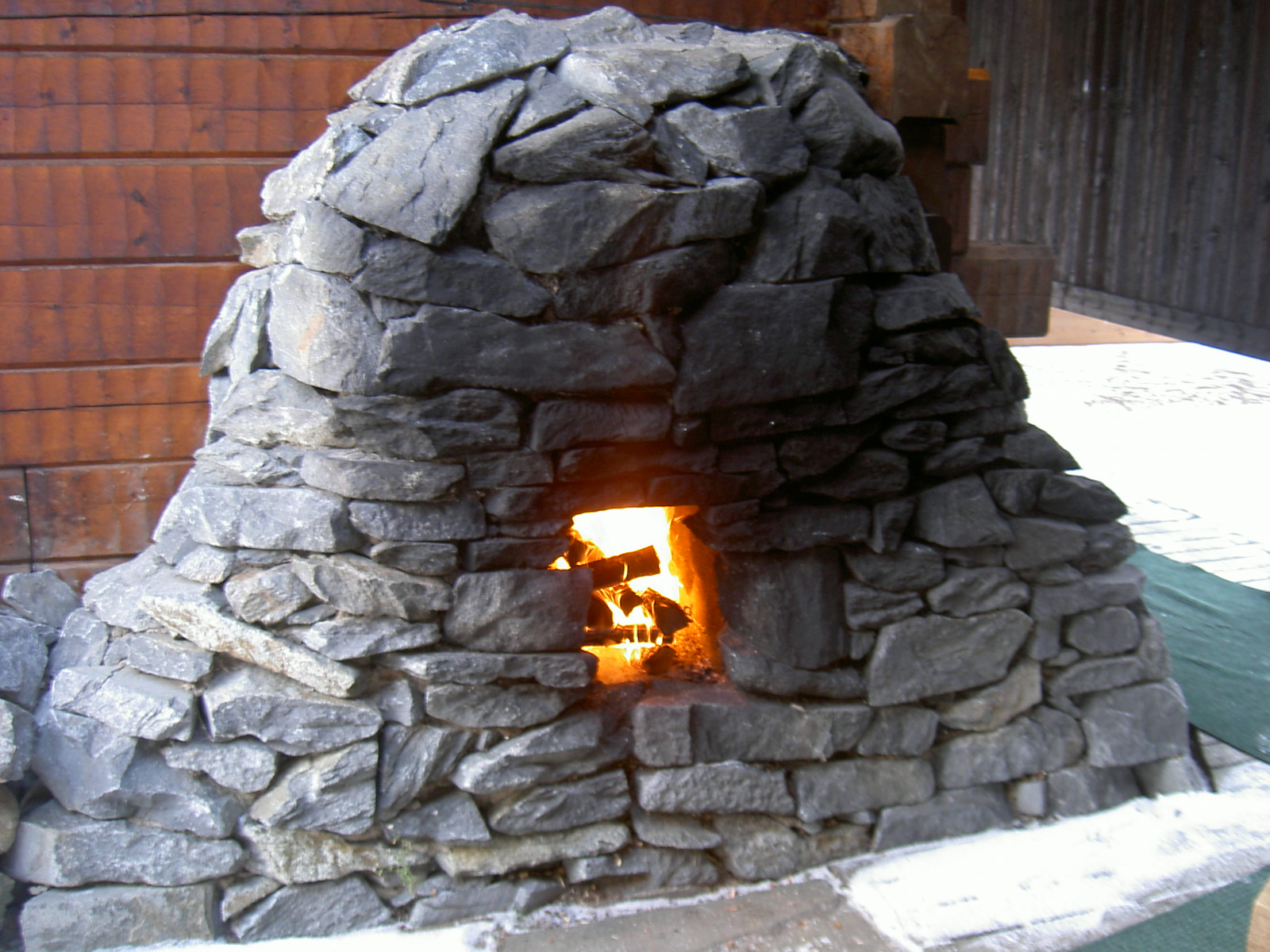 External heating of a smoke sauna in the Vuokatti region.